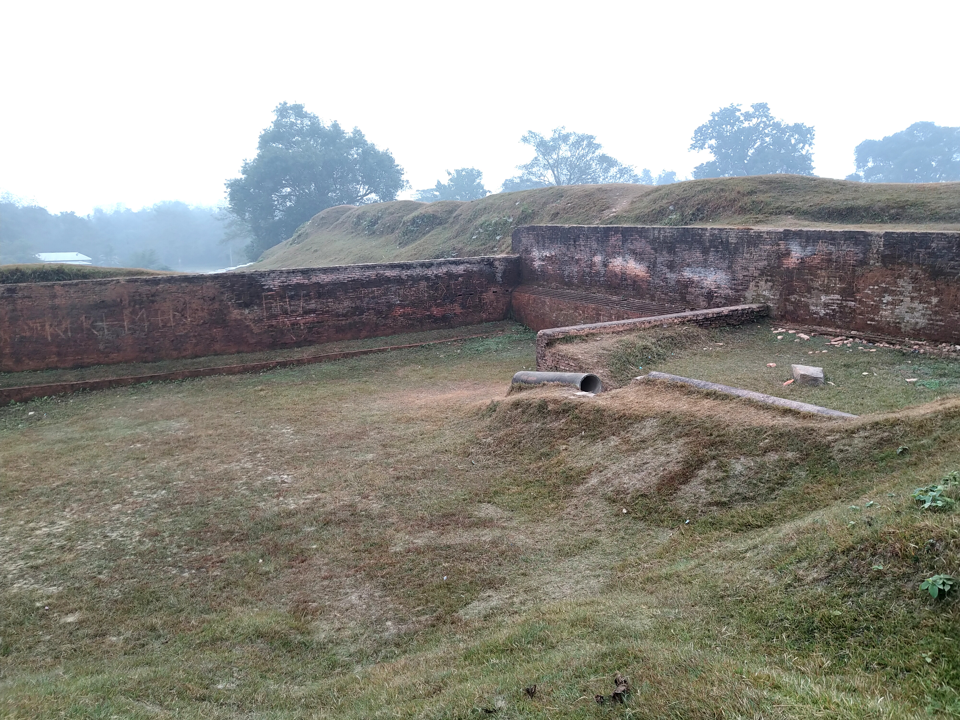 Mound of Rajpat of Gosanimari at Cooch Behar district in West Bengal.